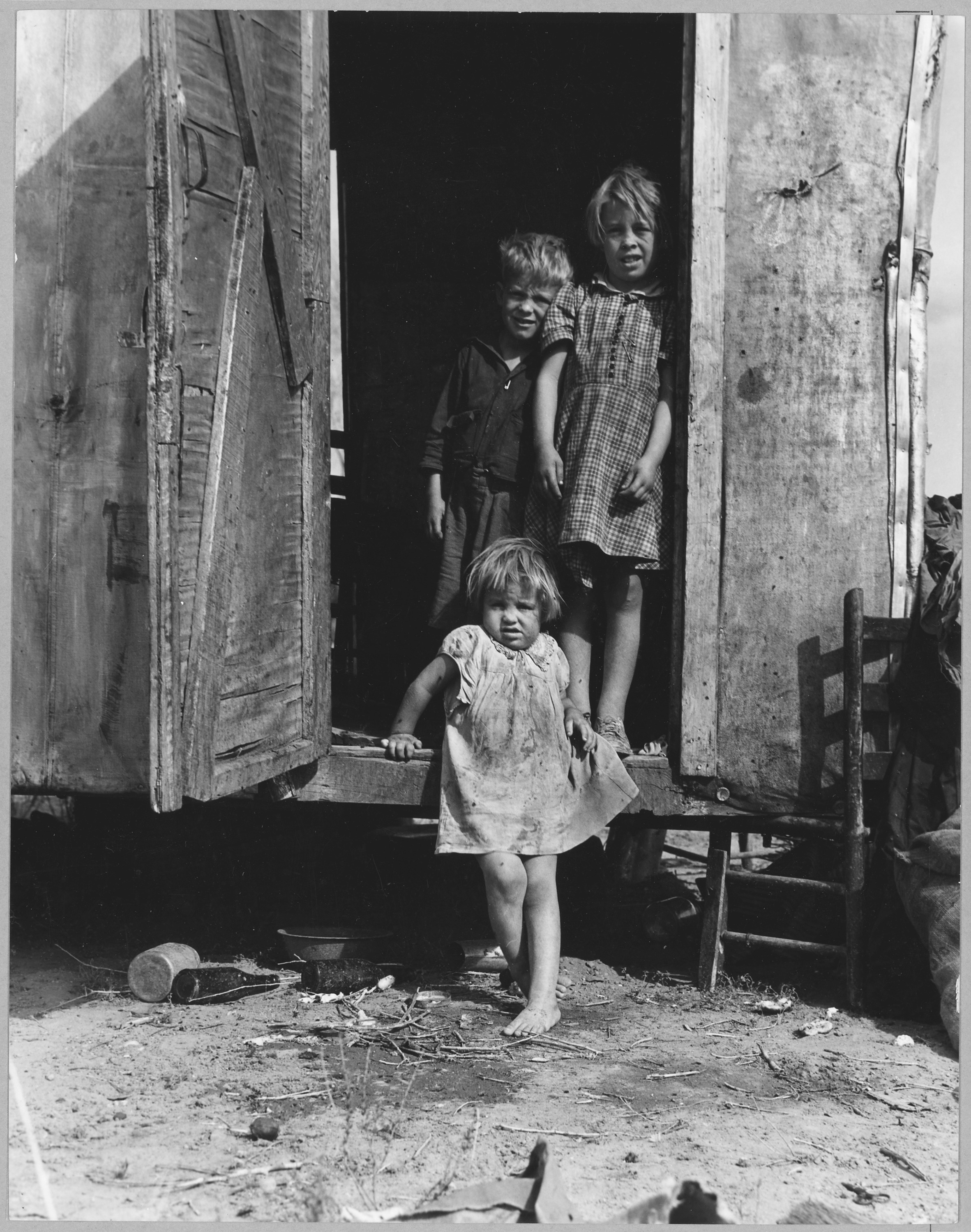 Scope and content: Full caption reads as follows: On Arizona Highway 87, south of Chandler. Maricopa County, Arizona. Children in a democracy. A migratory family living in a trailer in an open field. No sanitation, no water. They came from Amarillo, Texas. Pulled bolls near Amarillo, picked cotton near Roswell, New Mexico, and in Arizona. Plan to return to Amarillo at close of cotton picking season for work on WPA.